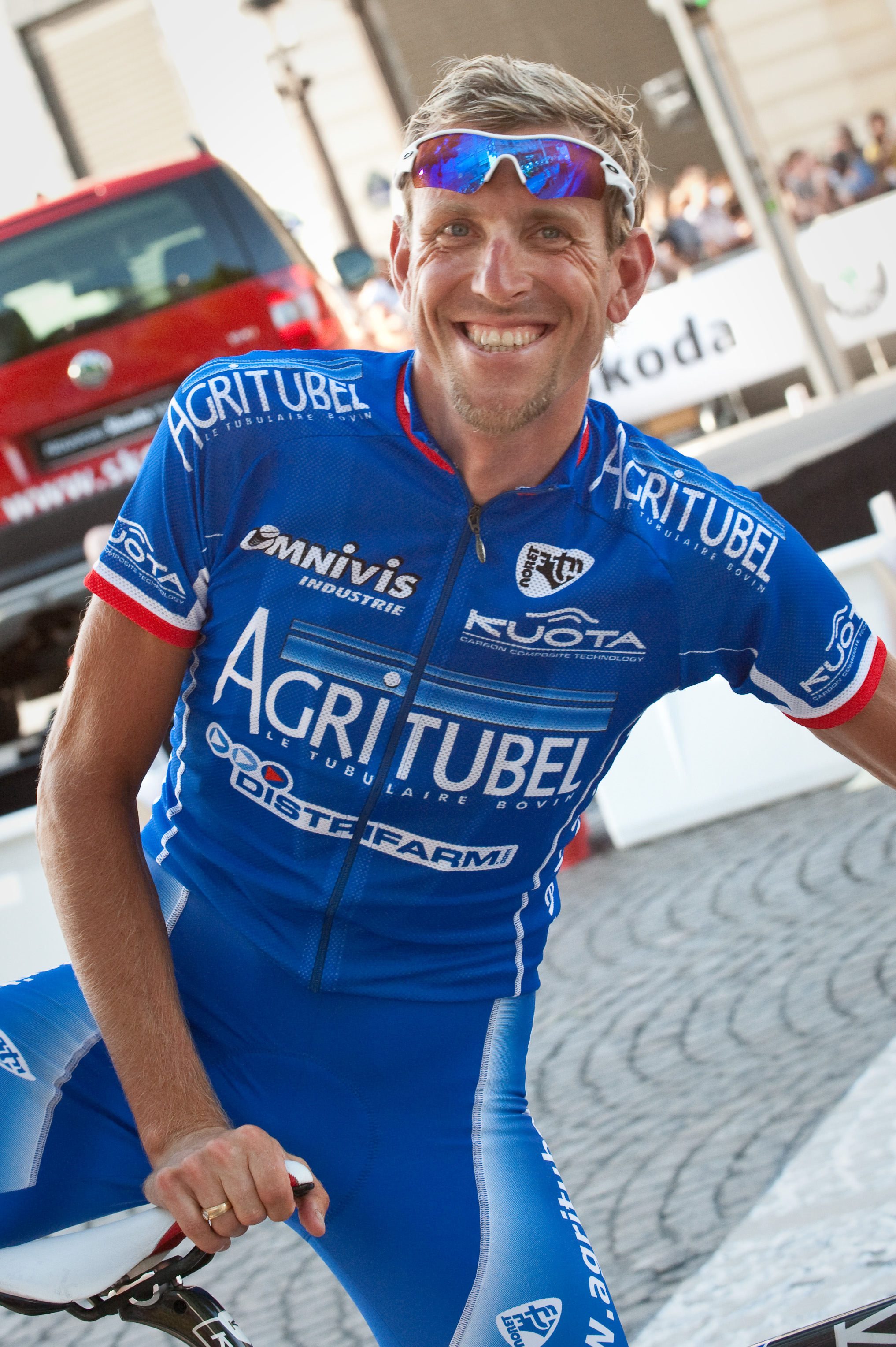 Tour de France 2009 - Parade Lap